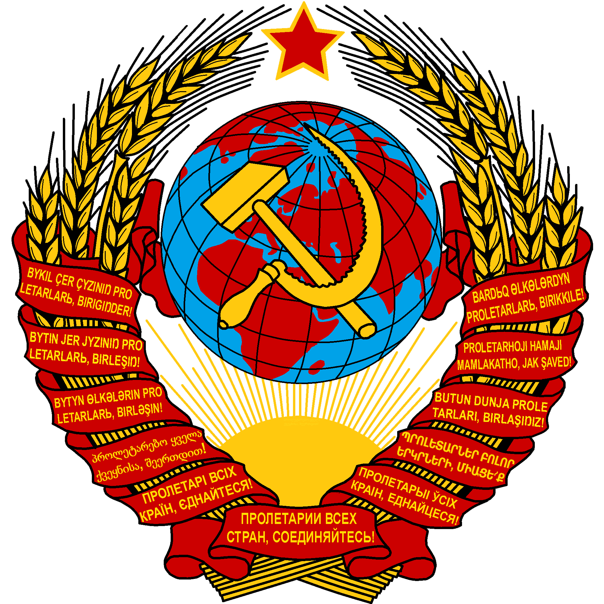 COA from 1936-46